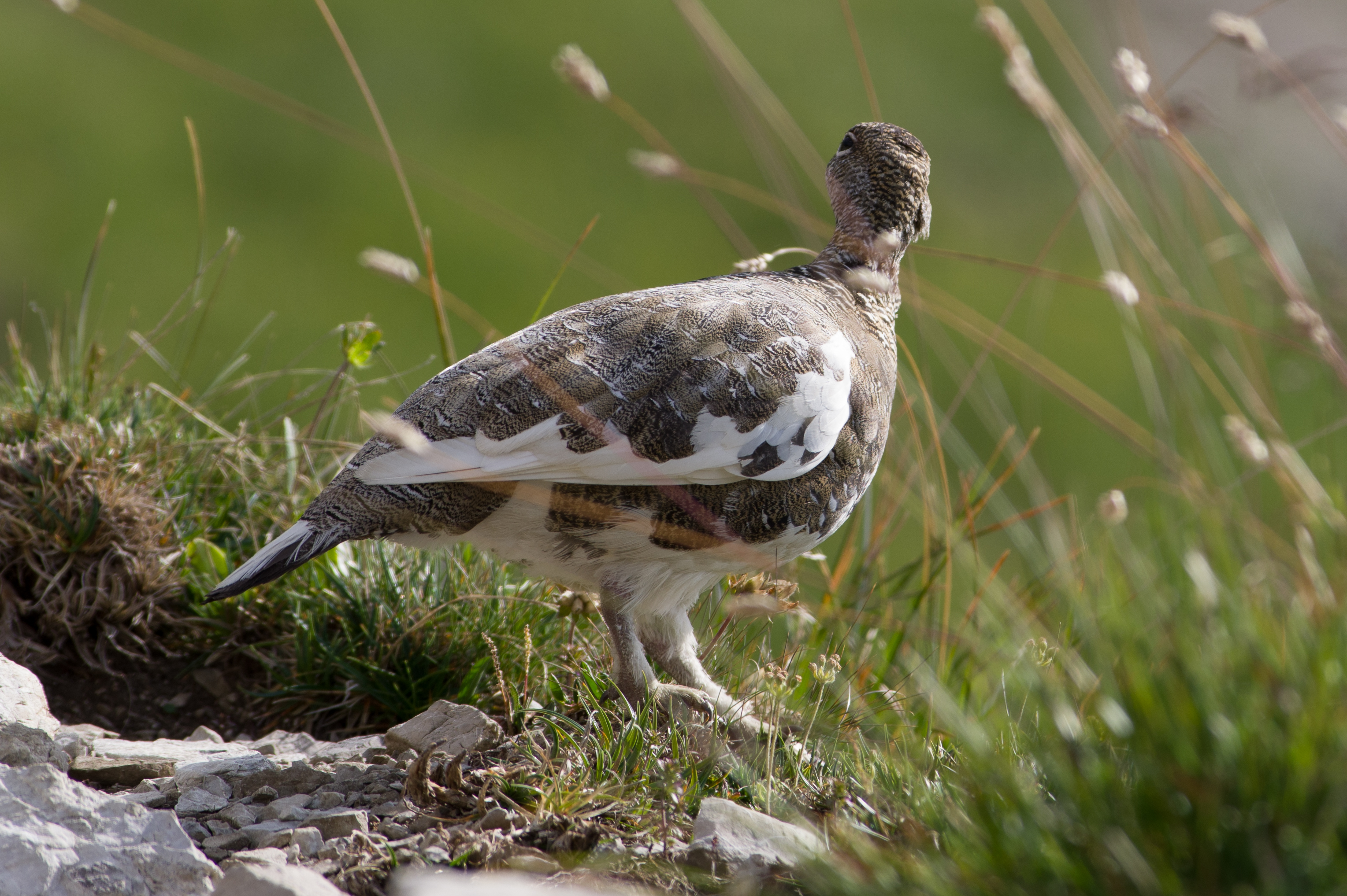 rock ptarmigan (Lagopus muta), Oberstdorf, Germany